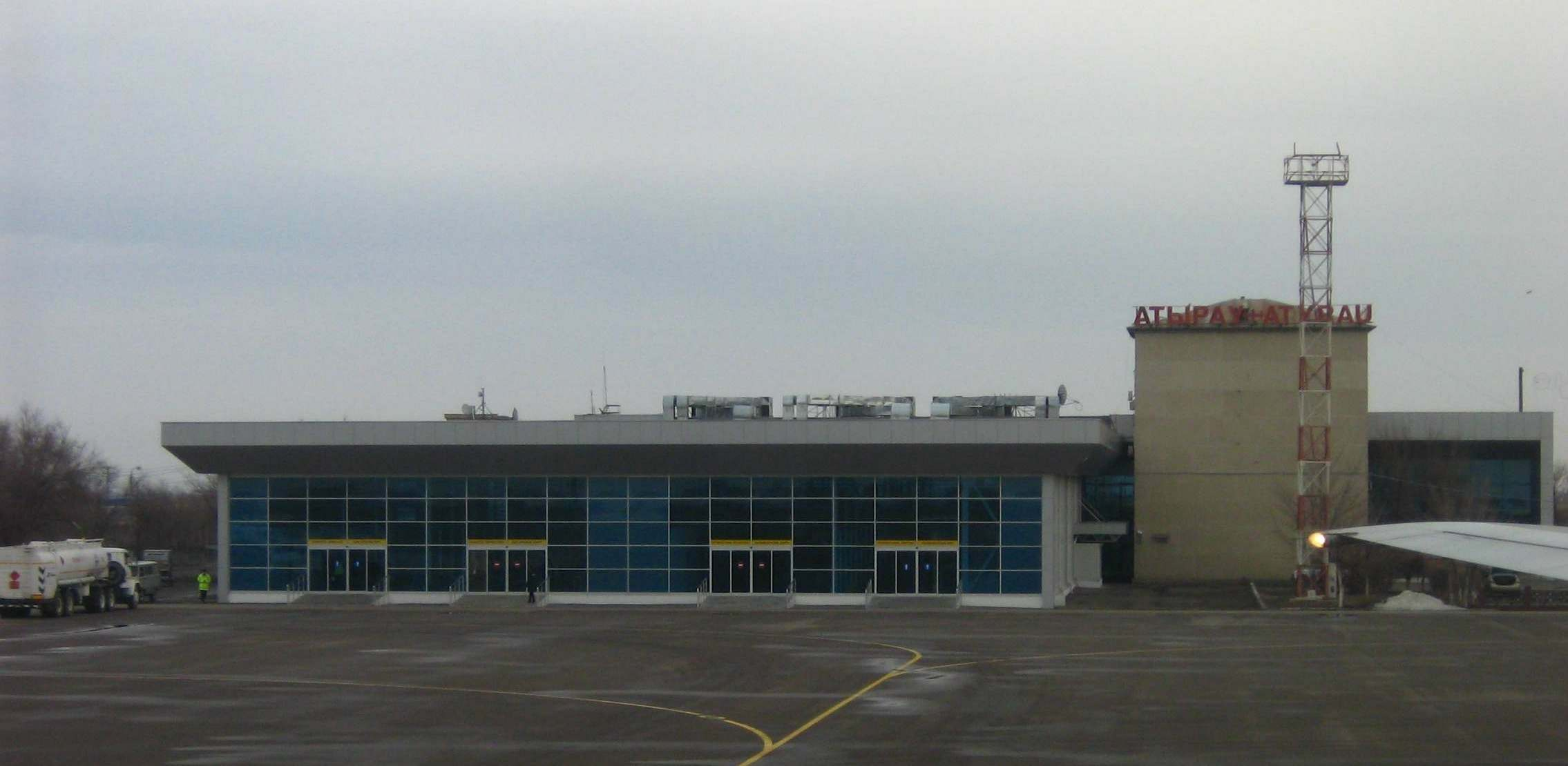 Atyrau Airport Terminal